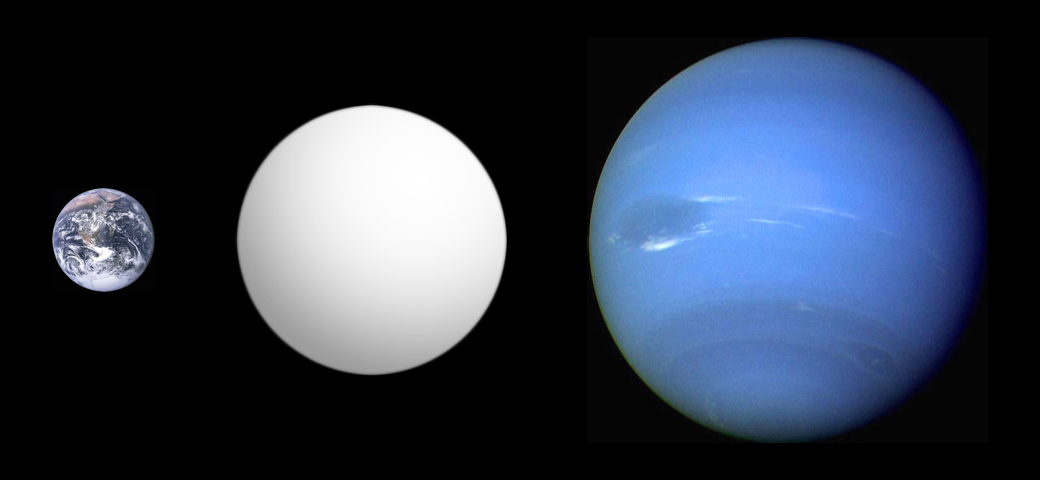 Comparison of best-fit size of the exoplanet GJ 1214 b with the Solar System planets Earth and Neptune, as reported in the Open Exoplanet Catalogue[1] as of 2015-11-14. ↑ Open Exoplanet Catalogue (2015-11-14). Retrieved on 2015-11-14.